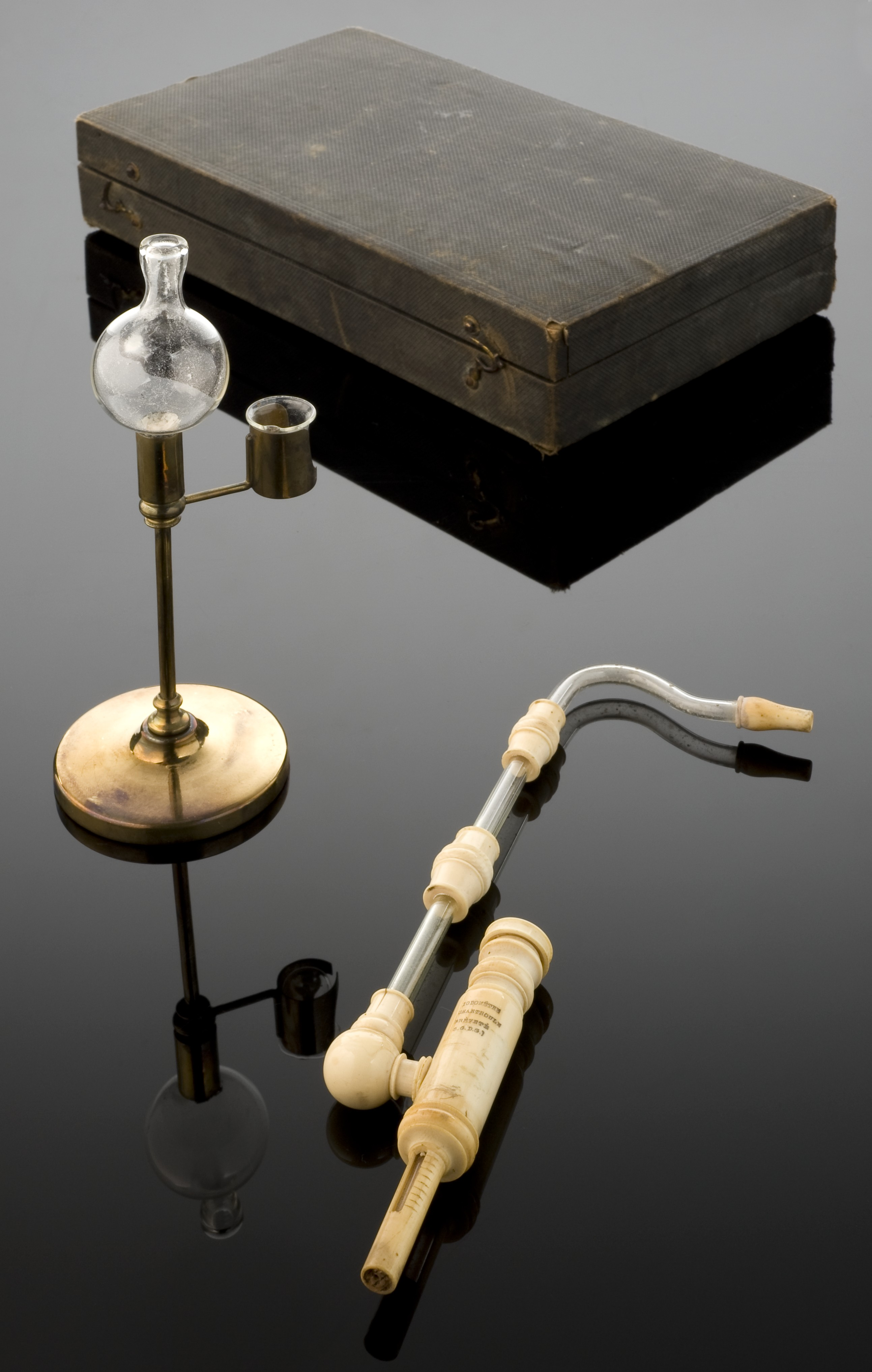 Physicians experimented with iodine to treat tuberculosis during the 1800s. This is a dangerous infectious disease that usually attacks the lungs. This iodine treatment apparatus was developed in France by Dr Chartroule. The medication was placed in the glass vial and inhaled via the long ivory mouthpiece. Dr Chartroule trialed his apparatus on 28 patients with some success: 17 had a perceived improvement, but 11 saw no benefit. Symptoms of tuberculosis include a chronic cough with blood-tinged sputum, fever, night sweats, and weight loss. Treatments were limited during the 1800s. However, inventions such as the stethoscope to listen to the chest (1816), and the X-ray machine (1895) helped diagnosis. The development of the BCG vaccine in 1921 helped control the disease. maker: Unknown maker Place made: France Medical Photographic Library Keywords: Tuberculosis; iodine treatment apparatus